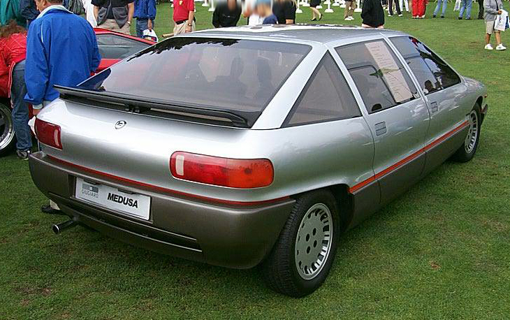 Rear view of the Lancia Medusa, an Italdesign concept car on Beta-basis from 1980, fitted with the 120hp 1995cc engine used in the Lancia Montecarlo.